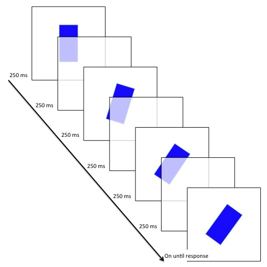 diagram of representational momentum implied event method